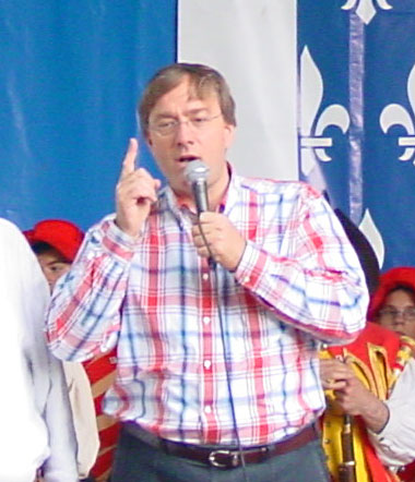 Mayor Vincent de Wolf speaking at the closing ceremony of the Etterbeek Medieval Market, 2007